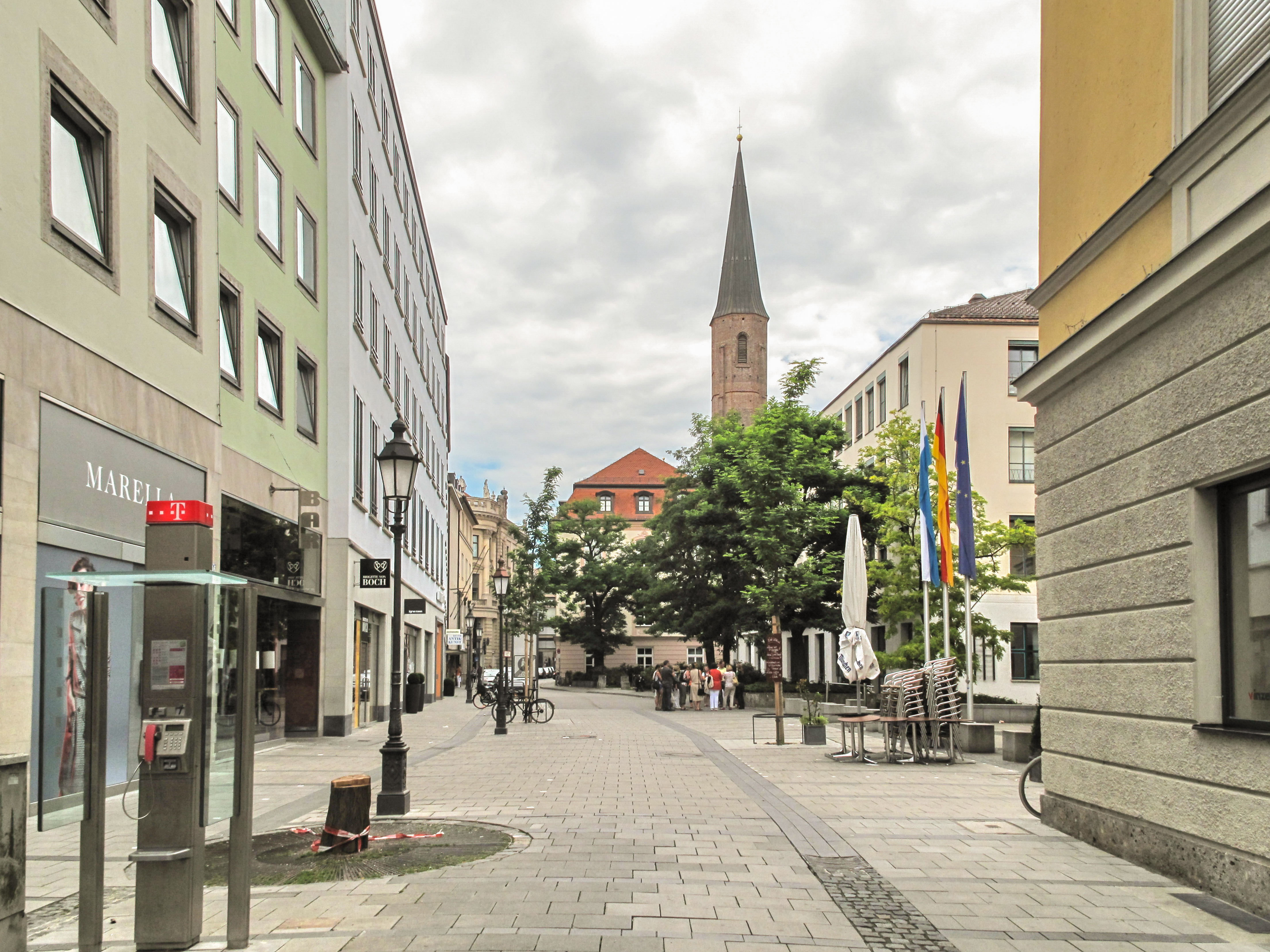 Munich, church: die Salvatorkirche